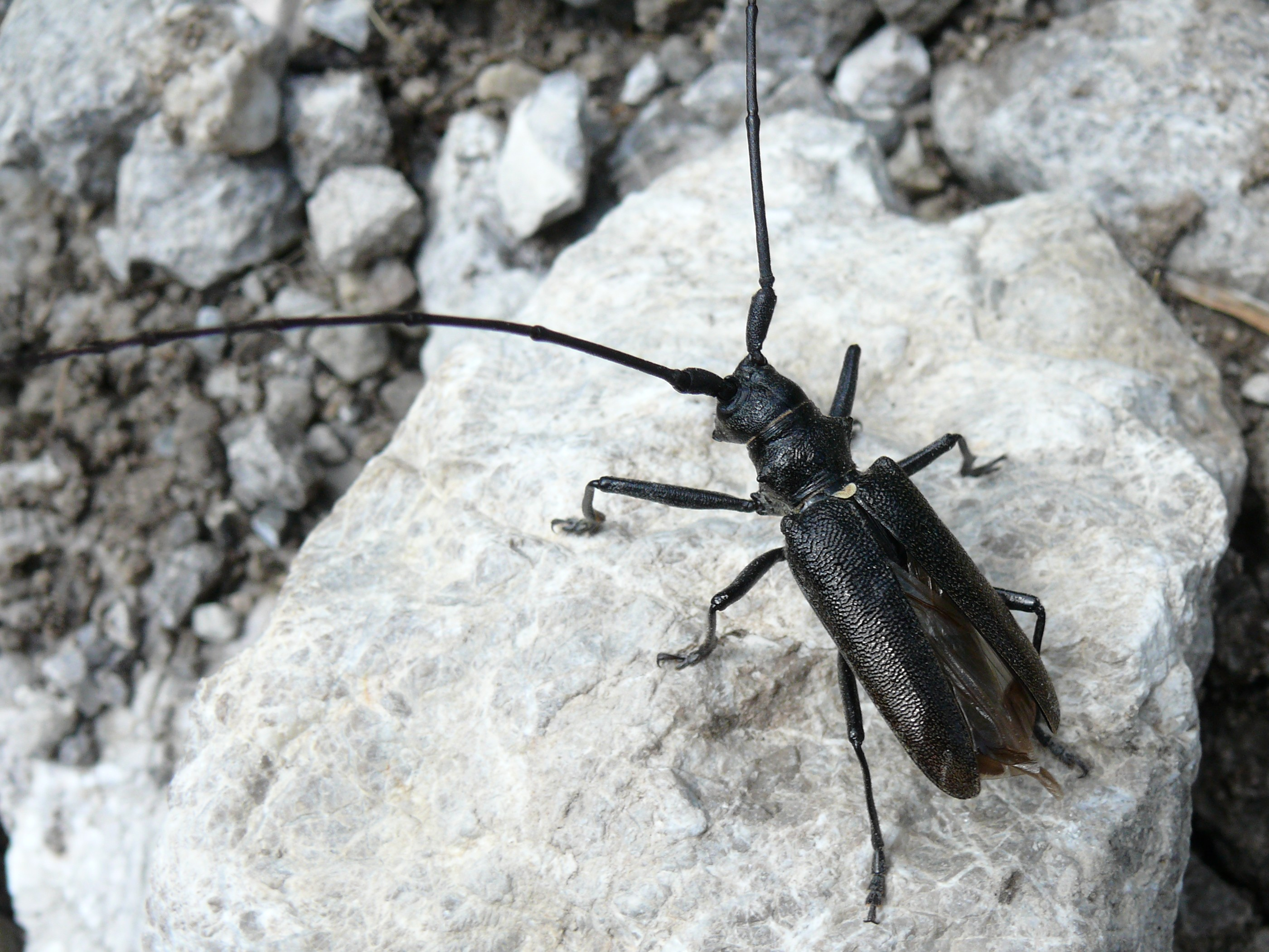 Male Longhorn-beetle Monochamus sartor, picture taken in the Bavarian Alps, Germany det. Klaas Reißmann